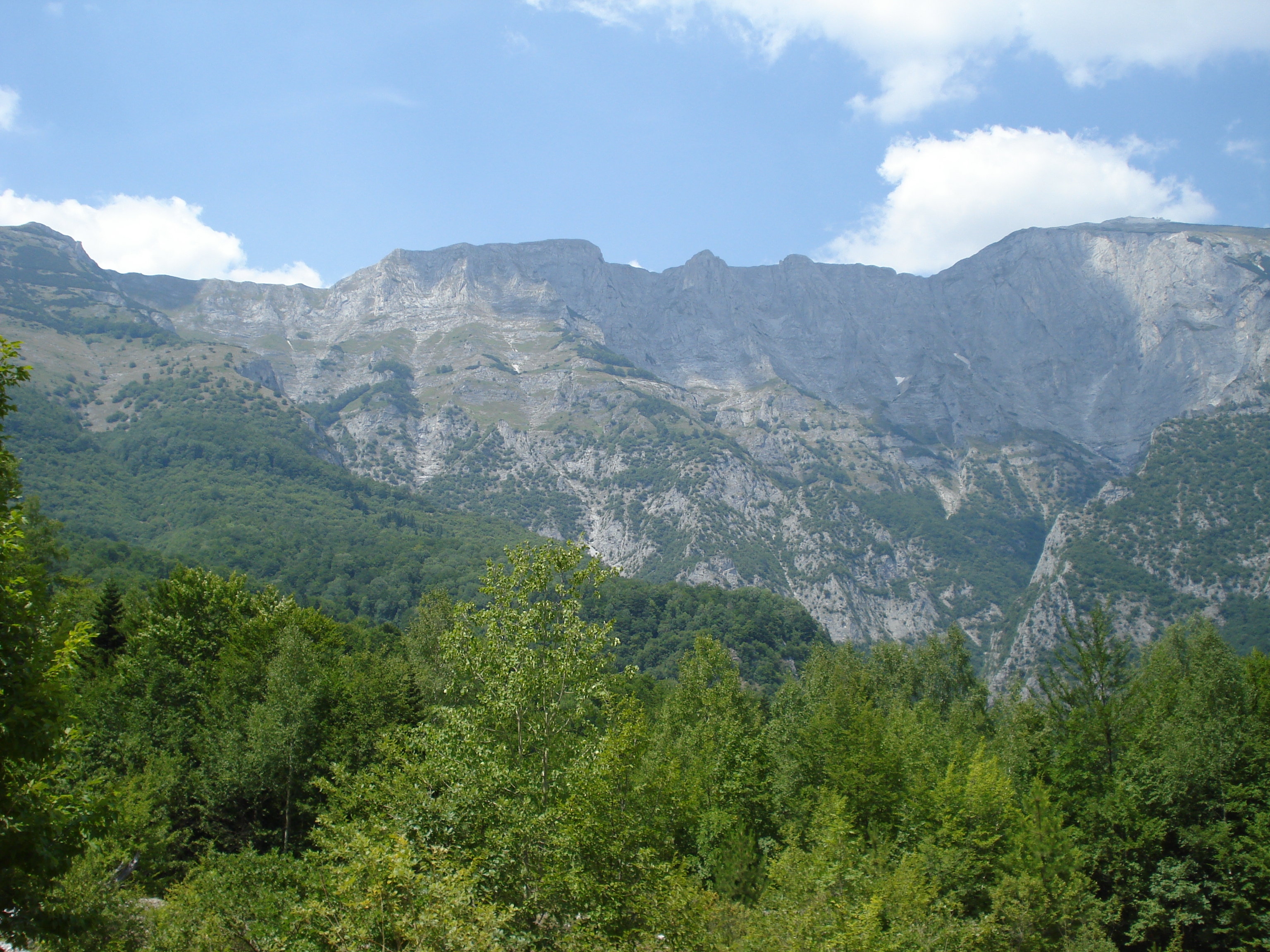 Mount Jakupica, Republic of Macedonia